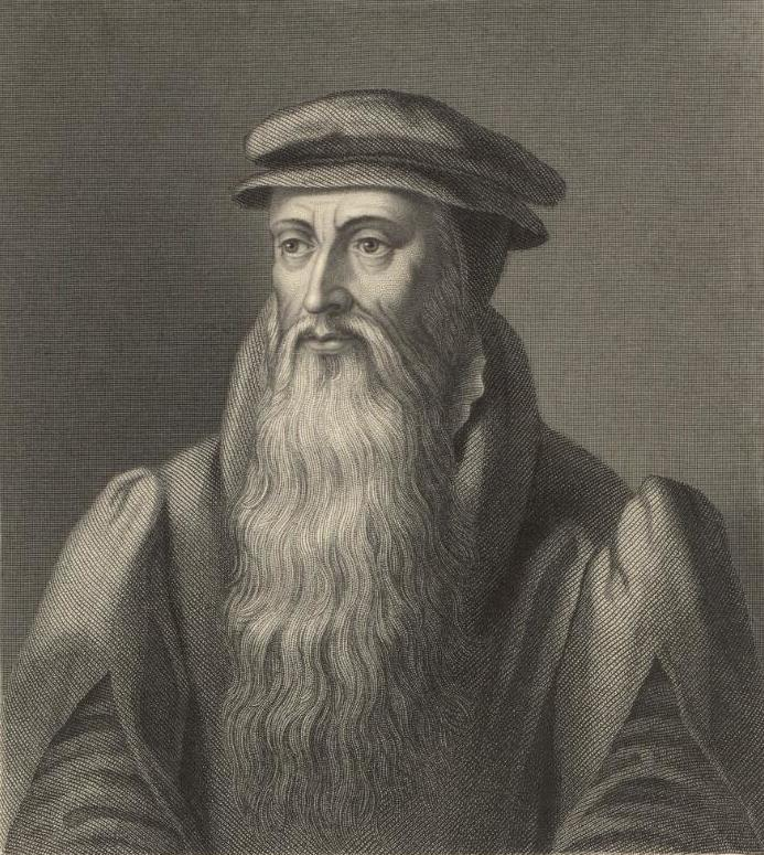 A portrait from the Welsh Portrait Collection at the National Library of Wales. Depicted person: John Knox – Scottish clergyman, writer and historian